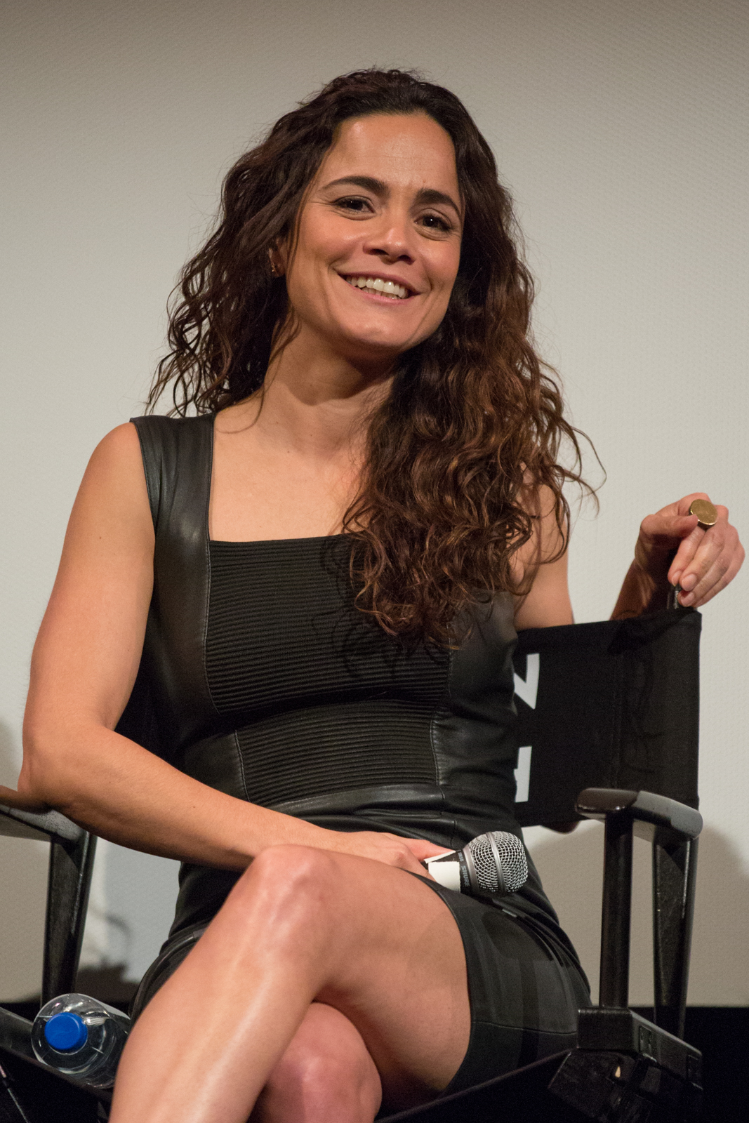 Alice Braga at the ATX Television Festival presentation of the TV show "Queen of the South"